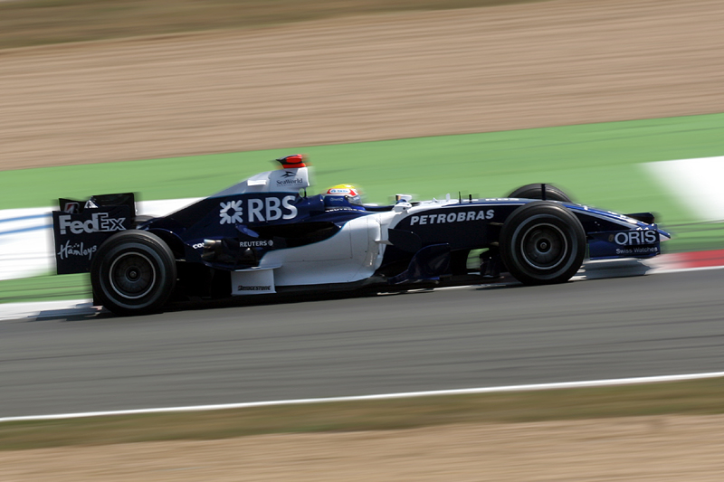 Mark Webber driving for Williams at the 2006 French Grand Prix.